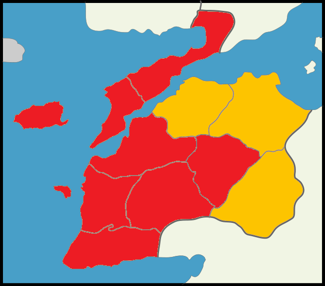 Çanakkale'de 2014 Türkiye cumhurbaşkanlığı seçimi sonuçları